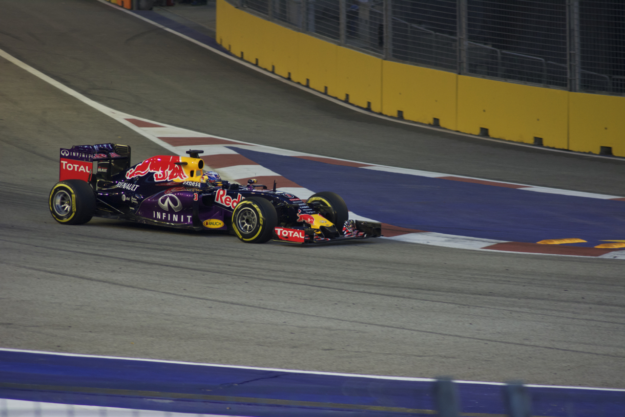 Daniel Ricciardo at the 2015 Singapore GP